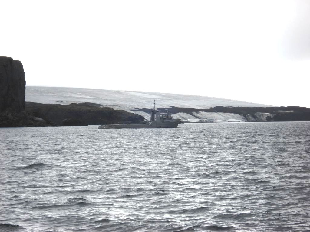 ARA Teniente Olivieri (A-2) in Fildes Bay in King George Island.